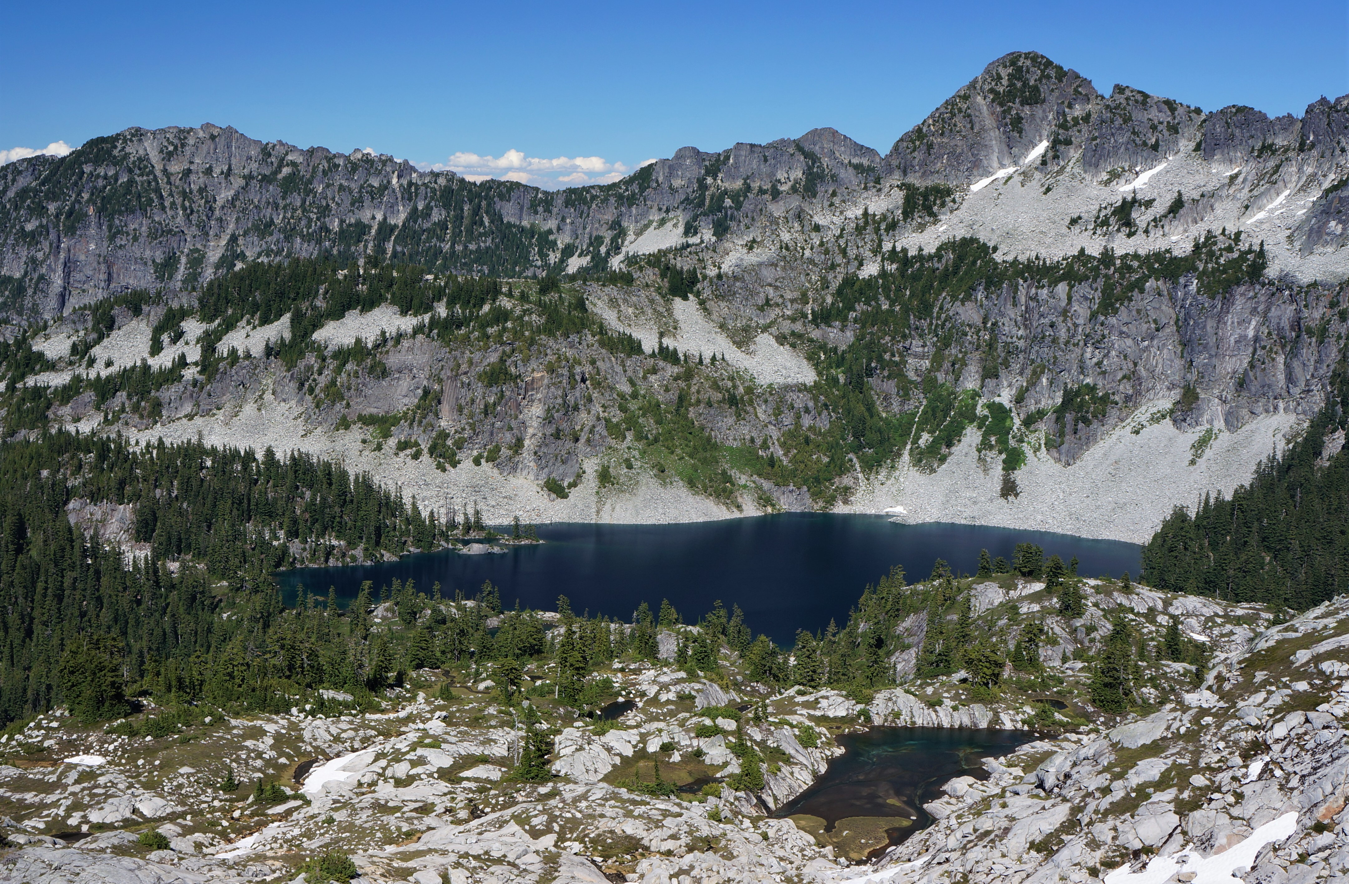 Camp Robber Peak and Wild Goat Peak with Gold Lake